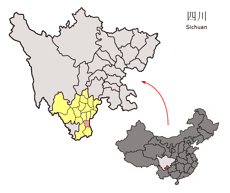 Location of Ningnan County (pink) and Liangshan Prefecture (yellow) within Sichuan province of China Map drawn in september 2007 using various sources, mainly : Sichuan province administrative regions GIS data: 1:1M, County level, 1990 Sichuan Counties map from